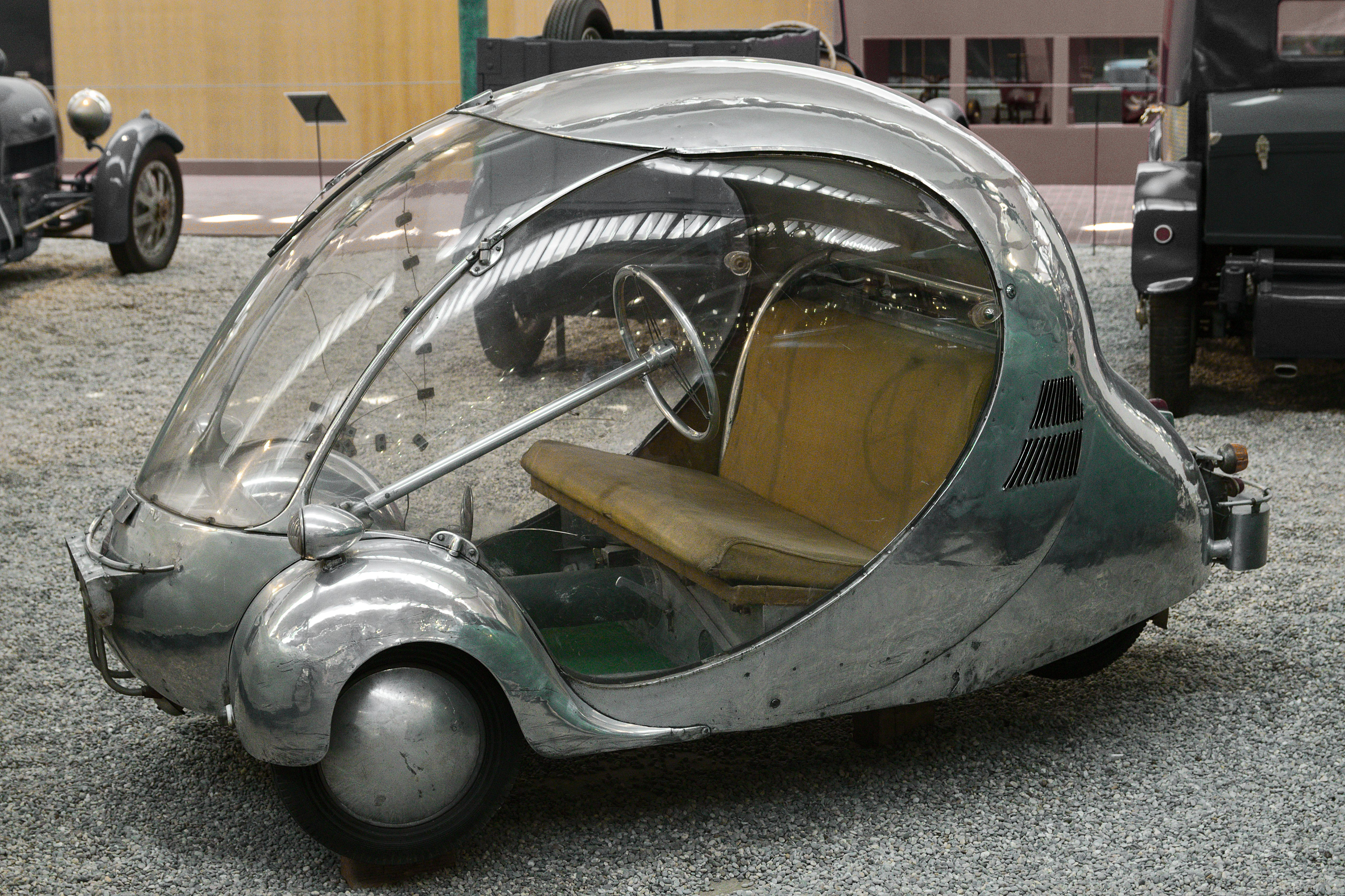 Arzens Biplace (1943) Does it look old-fashioned, or very sci-fi ?